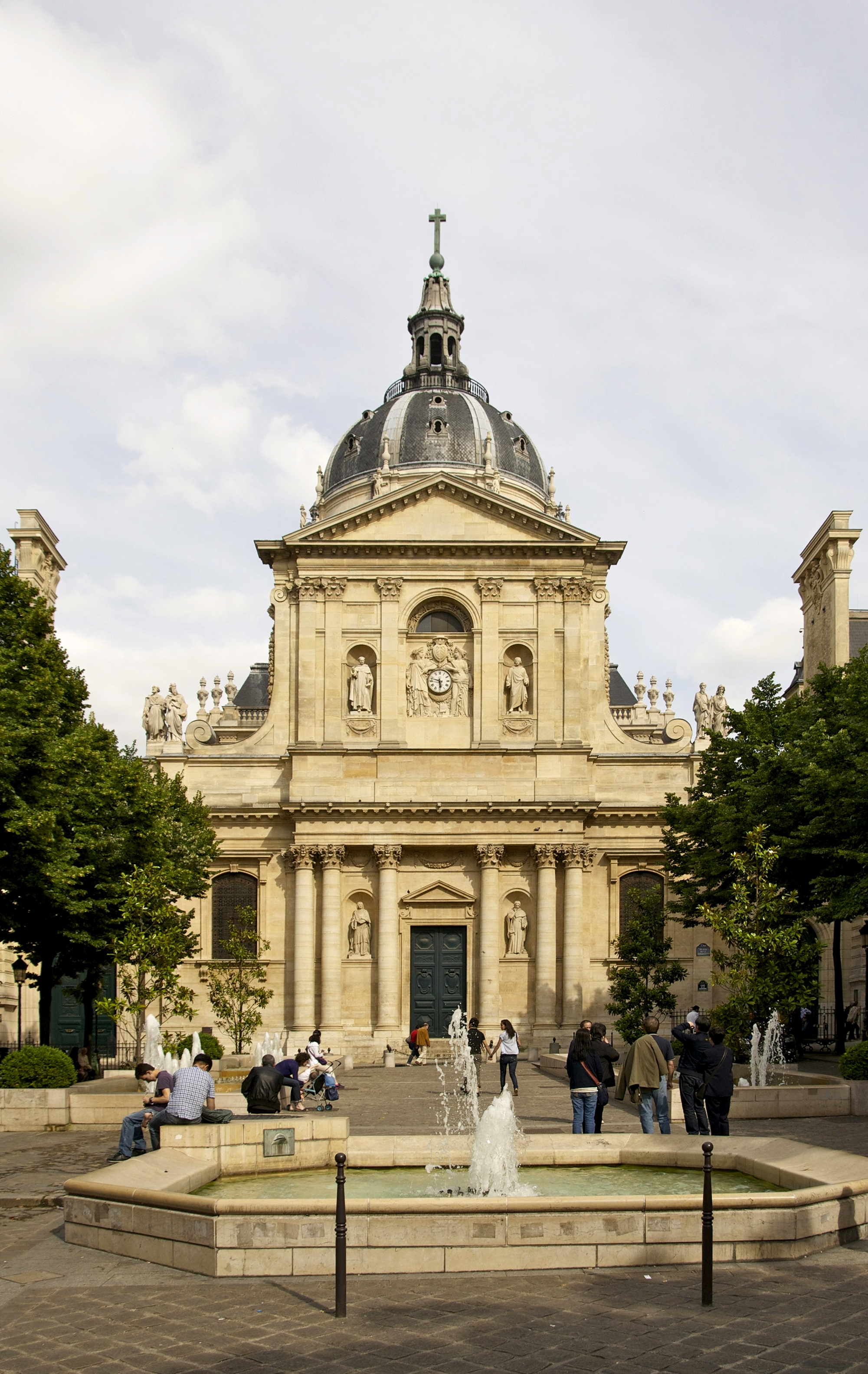 Facade of the chapelle Sainte-Ursule of the Sorbonne, Paris, France